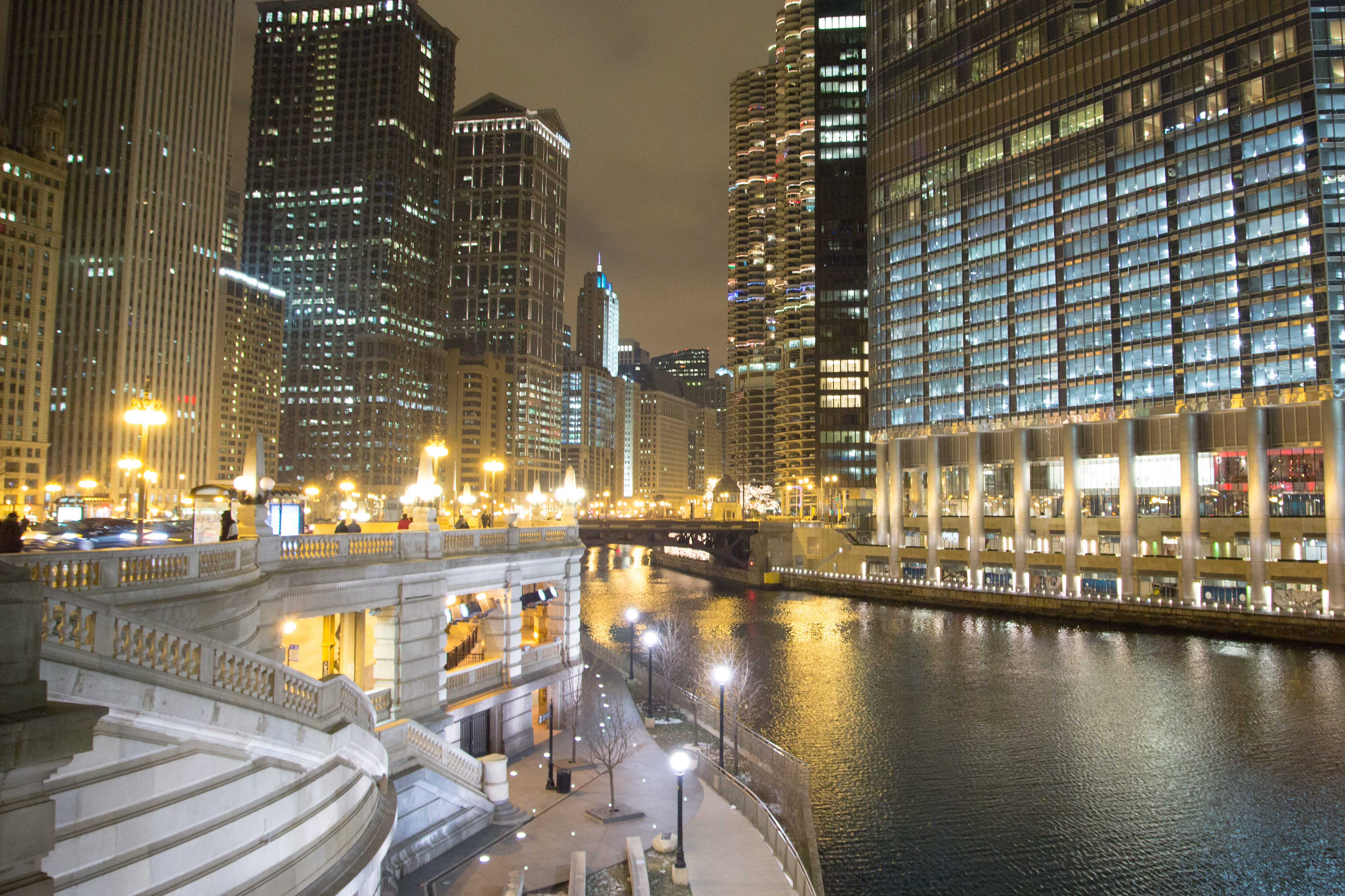 Chicago River in Chicago